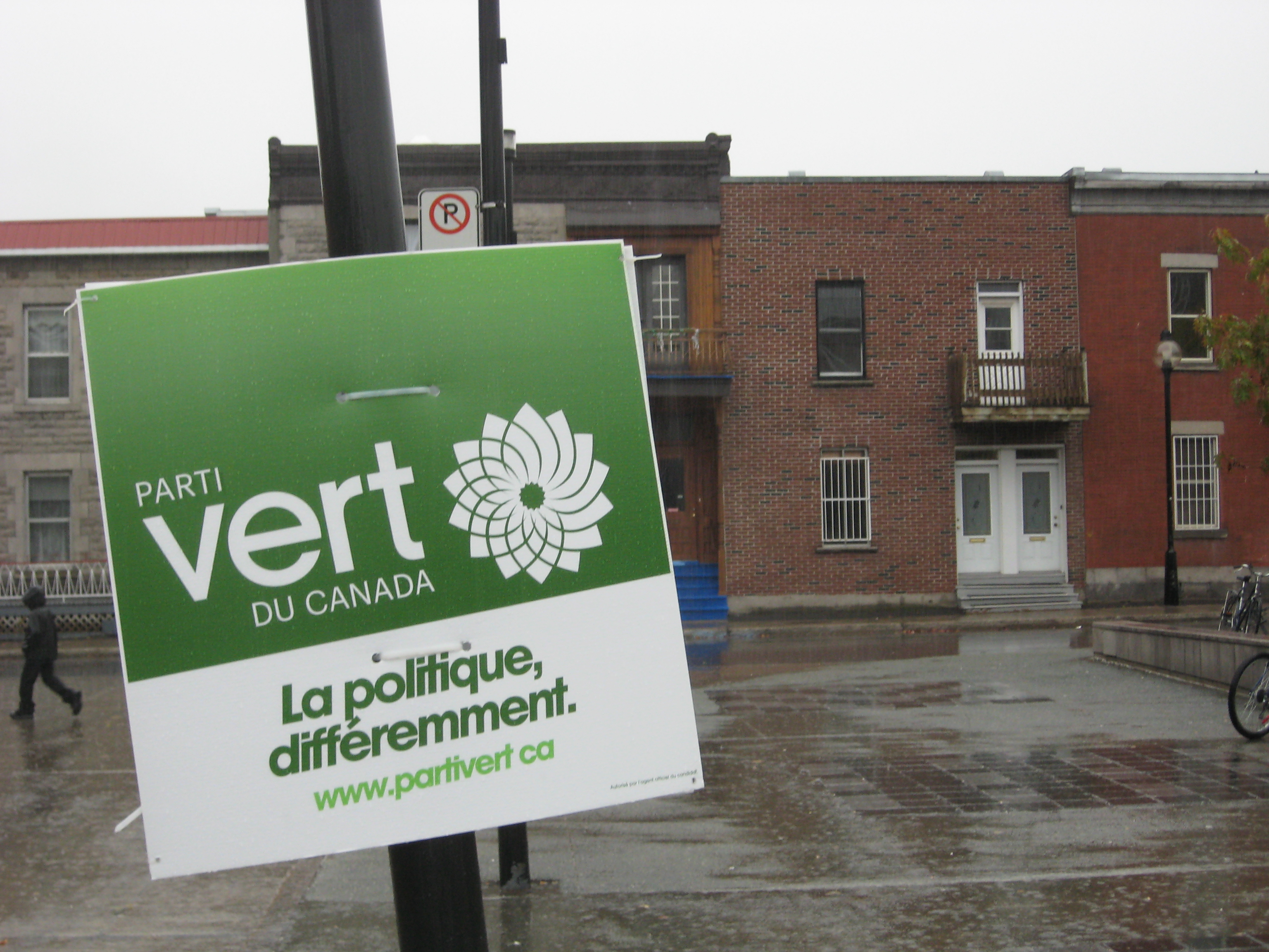 Green Party of Canada electoral post (in french), october 2008